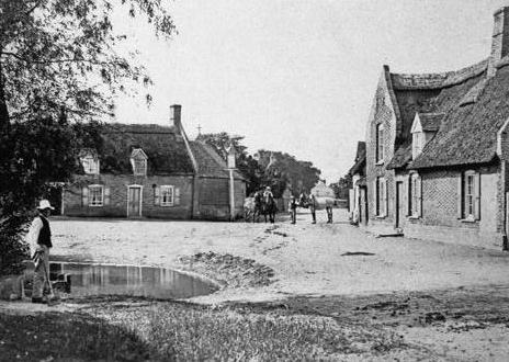 Three Horse Shoes public house, Little Thetford, 1906. The building ahead and to the left is the Three Horseshoes, now Horseshoes grade II listed building. The building on the right was burned down on 6 November 1930.